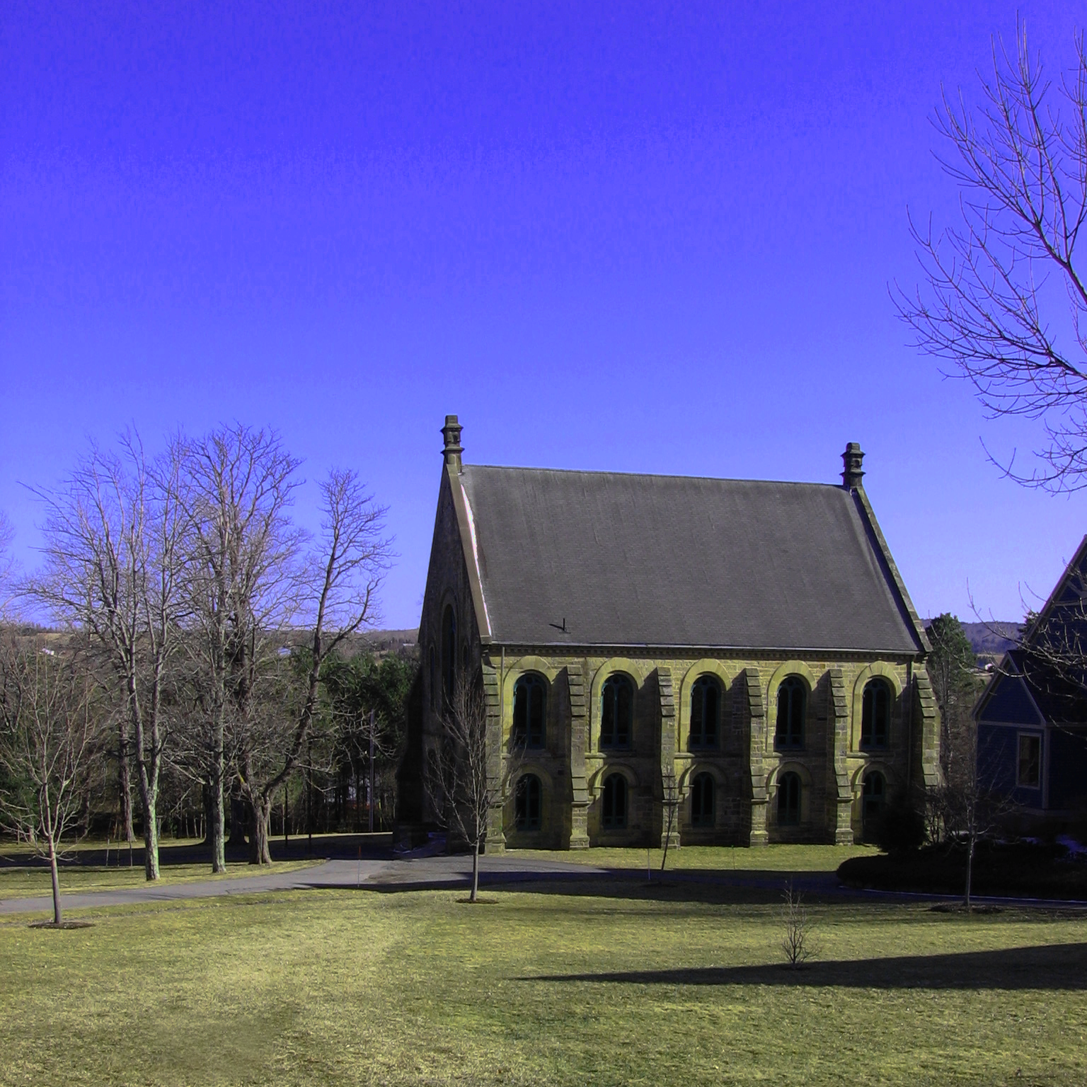 Kings Edgehill Library, Windsor, NS